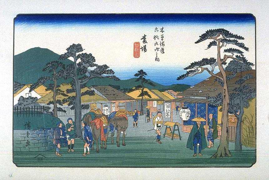 Banba on the Kisokaido, ukiyo-e prints by Hiroshige